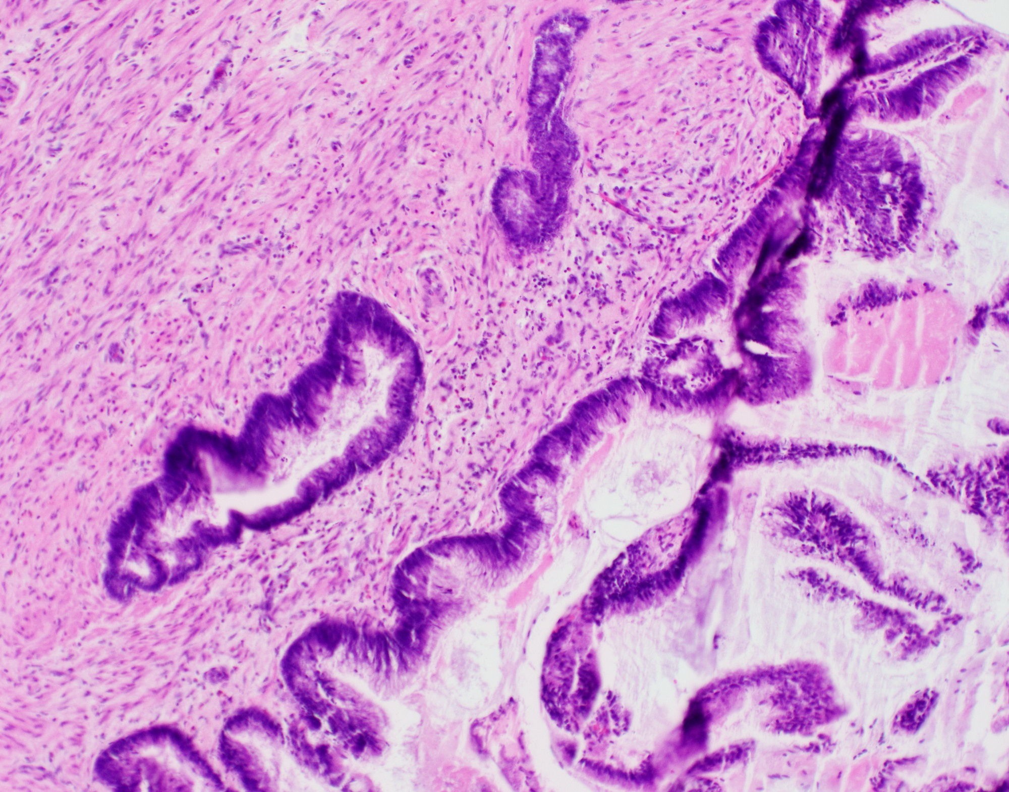 Medium-power magnification of low-grade appendiceal mucinous neoplasm (LAMN): There is minimal cytological atypia of the epithelial cells.